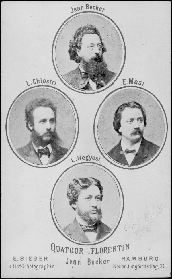 Pictures of the members of well-known Florentine String Quartet